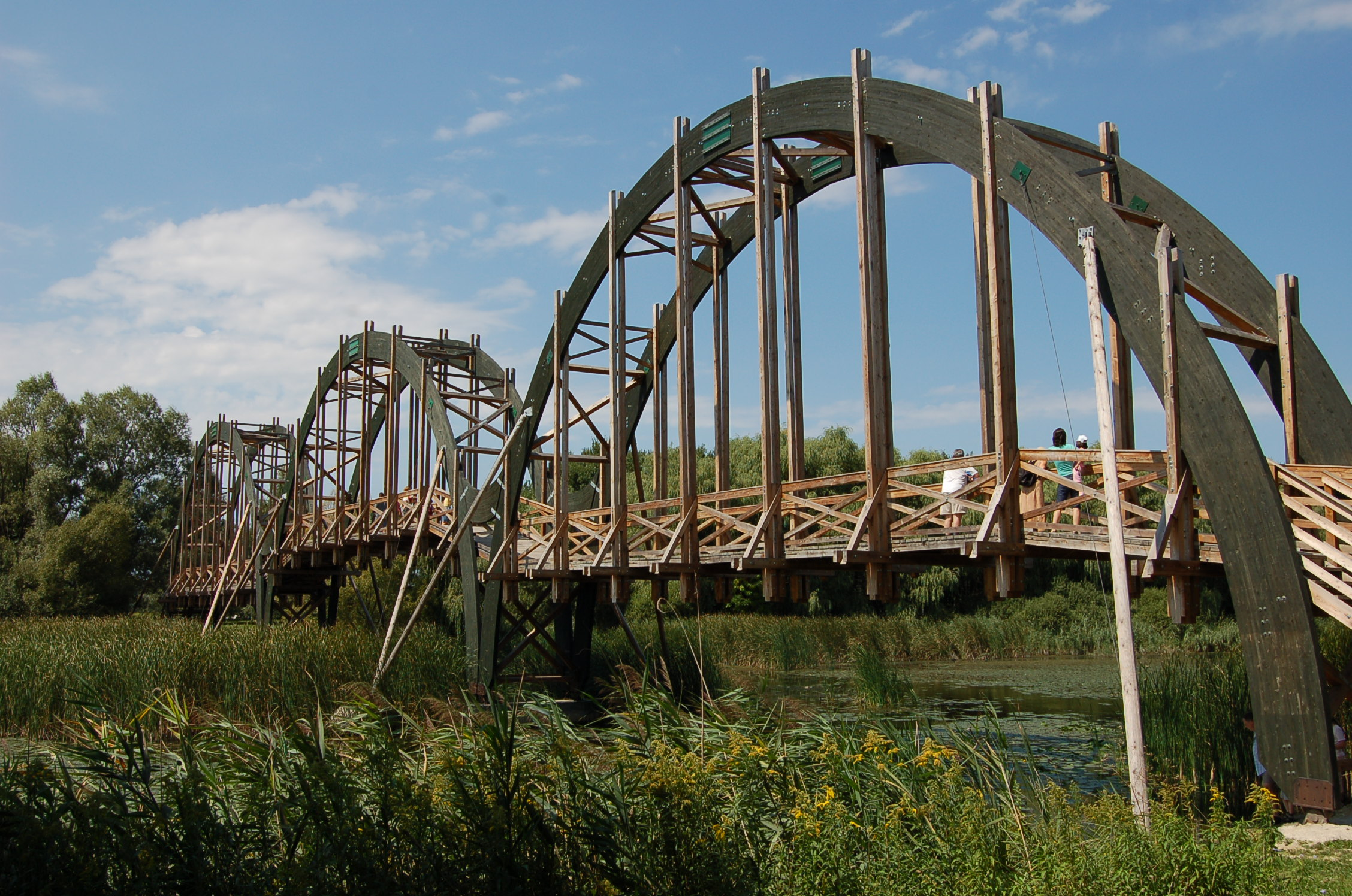 Bridge to Kányavári-sziget in Balaton-Felvidéki Nemzeti Park (Upper Balaton National Park), Hungary